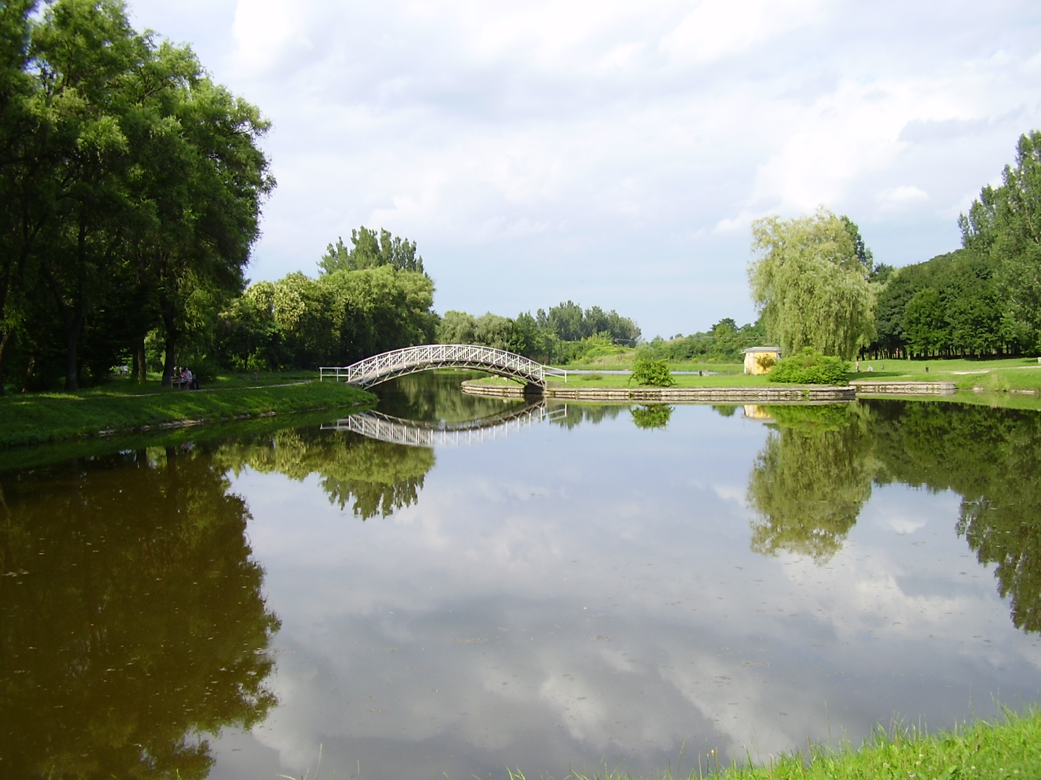 Lake in Kazincbarcika